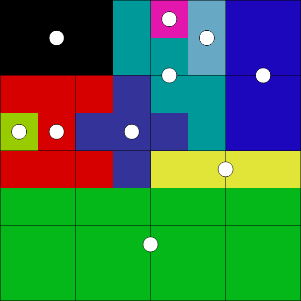 Tentai show solved grid